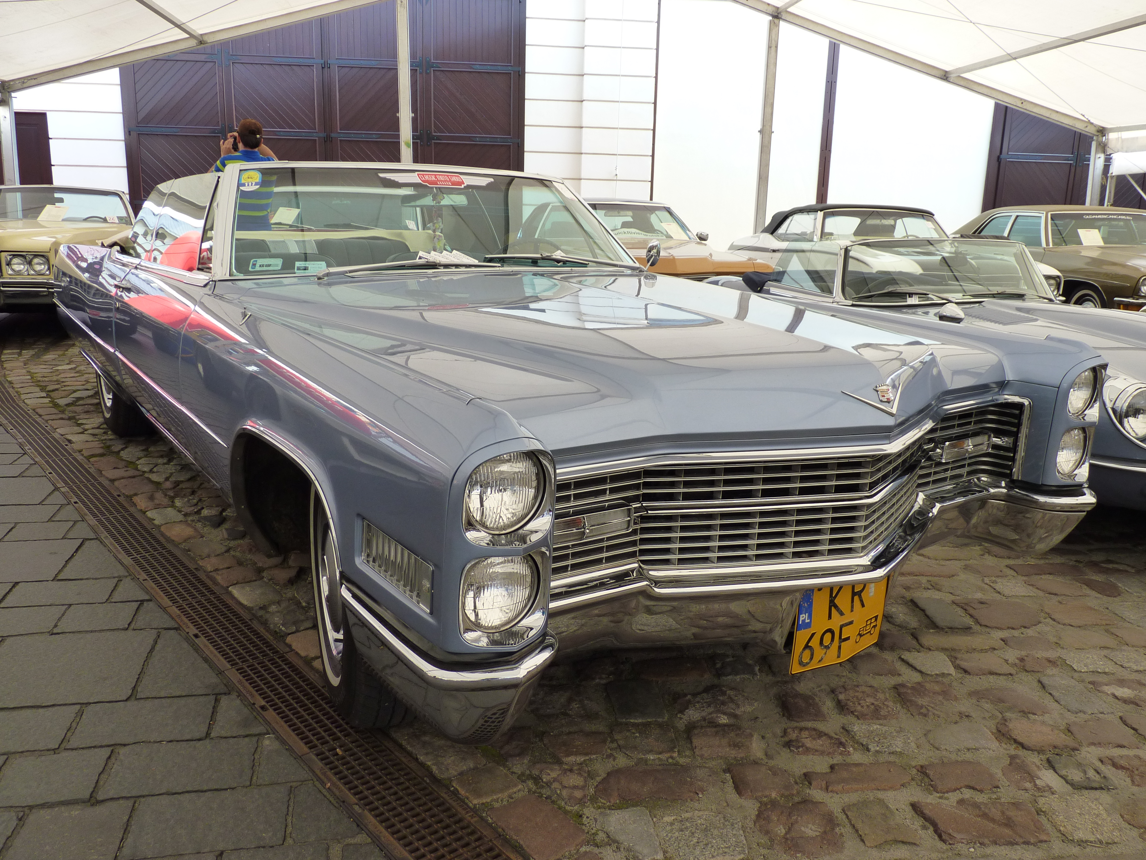 Classic Moto Show 2014 in Kraków.